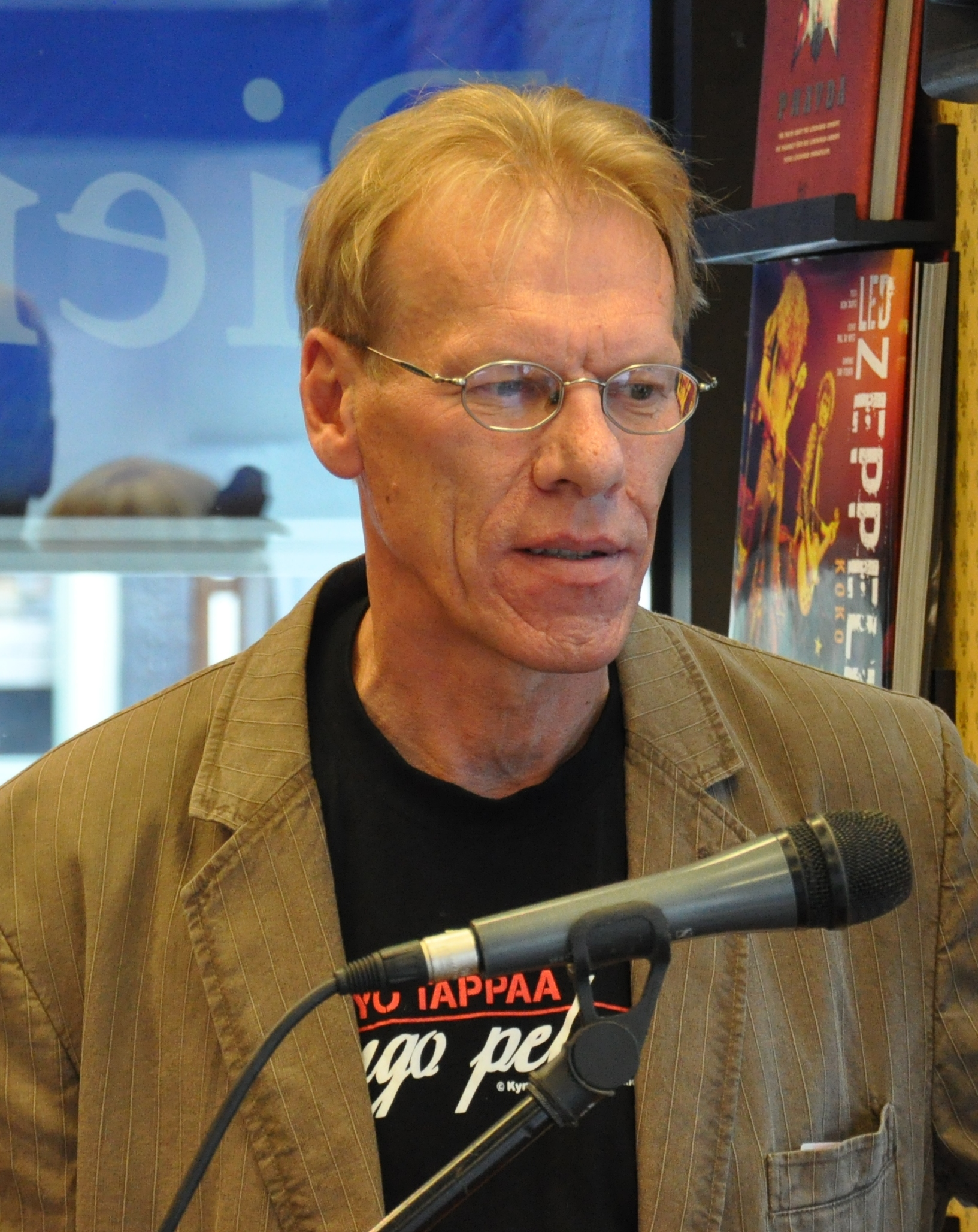 Finnish journalist and writer Jukka Saarinen on Night of the Arts in Turku, Finland 2009.